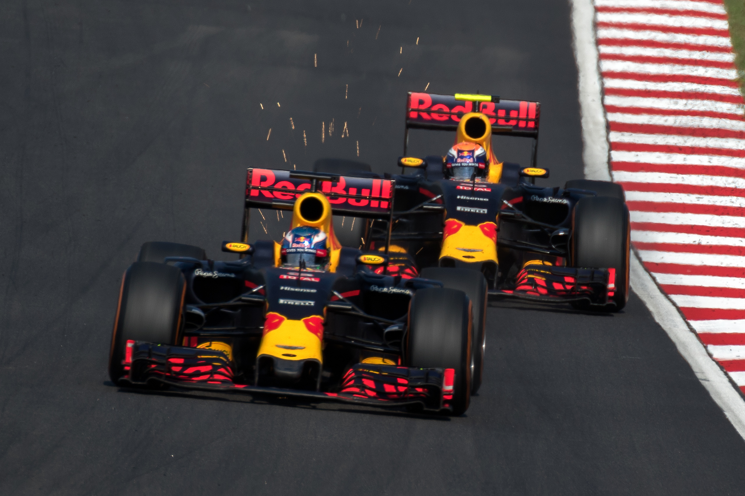 Formula One 2016 Rd.16 Malaysian GP: Daniel Ricciardo (Red Bull) and Max Verstappen (Red Bull). Verstappen trying to overtake Ricciardo.